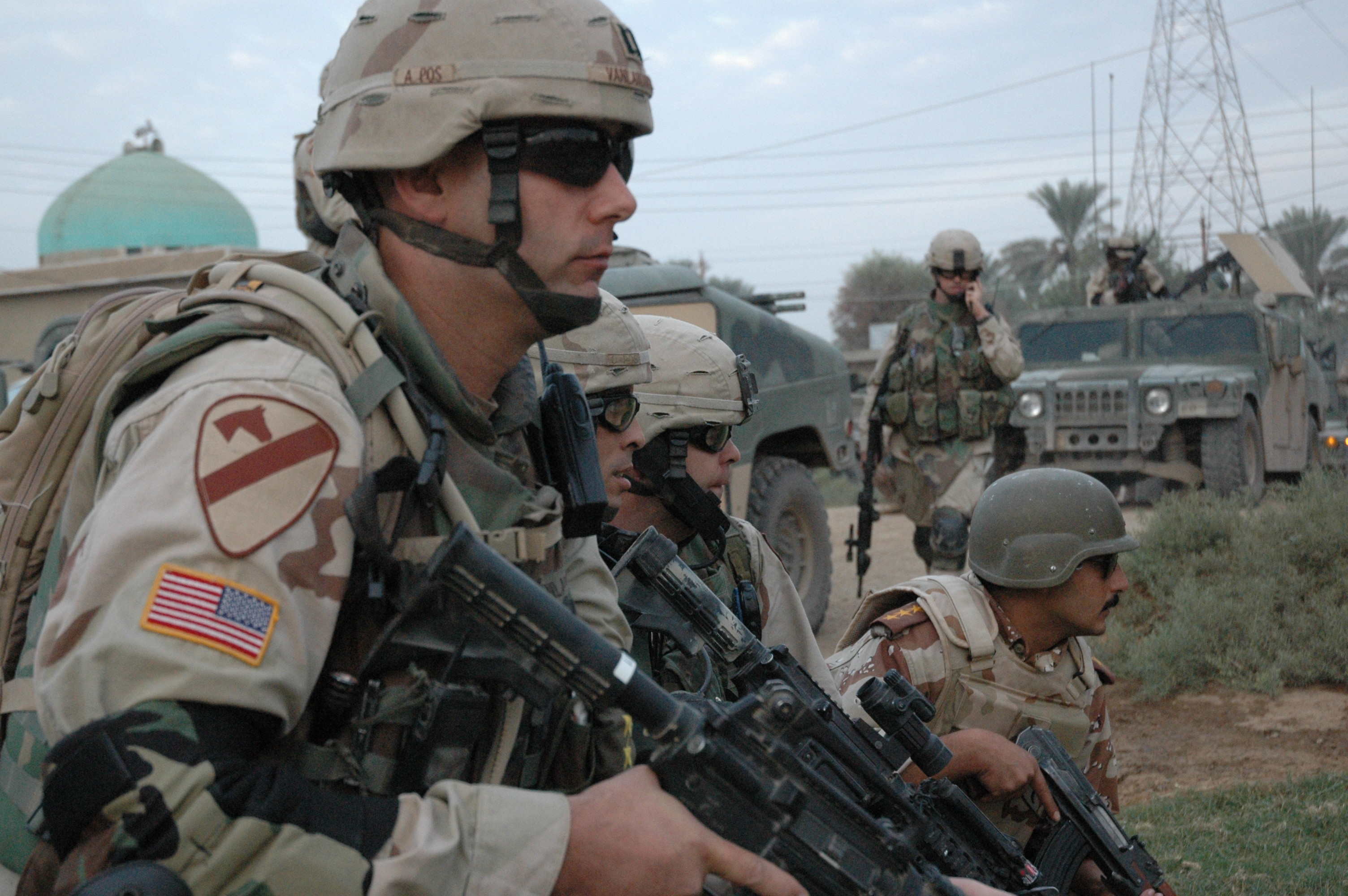 CPT John Vanlandingham, Military Assistance Training Team (MATT) HHB, 1-206th Field Artillery; SSG Shaw Buffalo, MATT HHC 39th BCT; 1LT Mark Bourgery, Executive Officer, Battery A, 1-103rd FA; CPT Muhommad, S2, 307th Iraqi National Guard Battalion; MAJ Christian Neary, Commander, Battery A, 1-103rd FA at the kick off of Operation Aleutian Providenance, 5 Oct 04